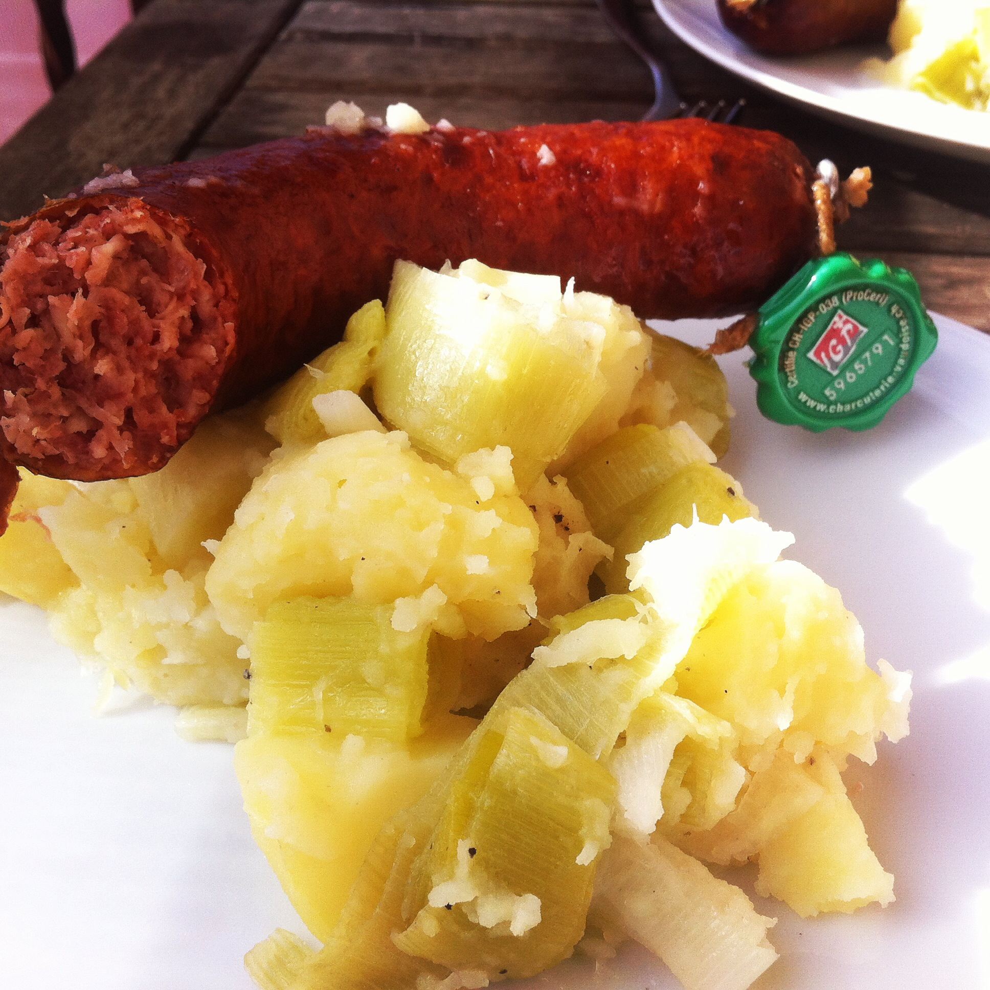 Papet from Vaud (Switzerland) and cabbage-flavoured sausage.